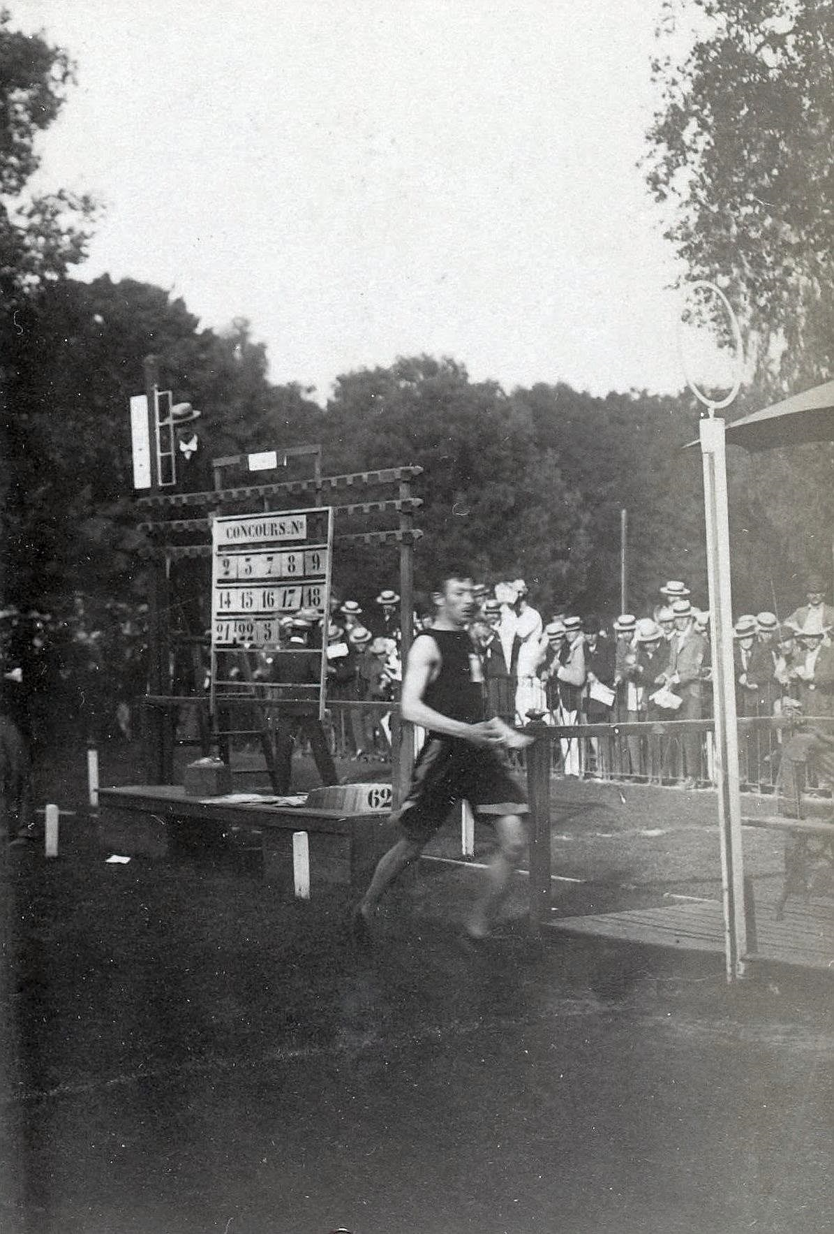 [Collection Jules Beau. Photographie sportive] : T. 13. AnnÃ©e 1900 / Jules Beau : F. 44. [Les sports Ã l'Exposition : championnats du monde d' athlÃ©tisme, amateurs]